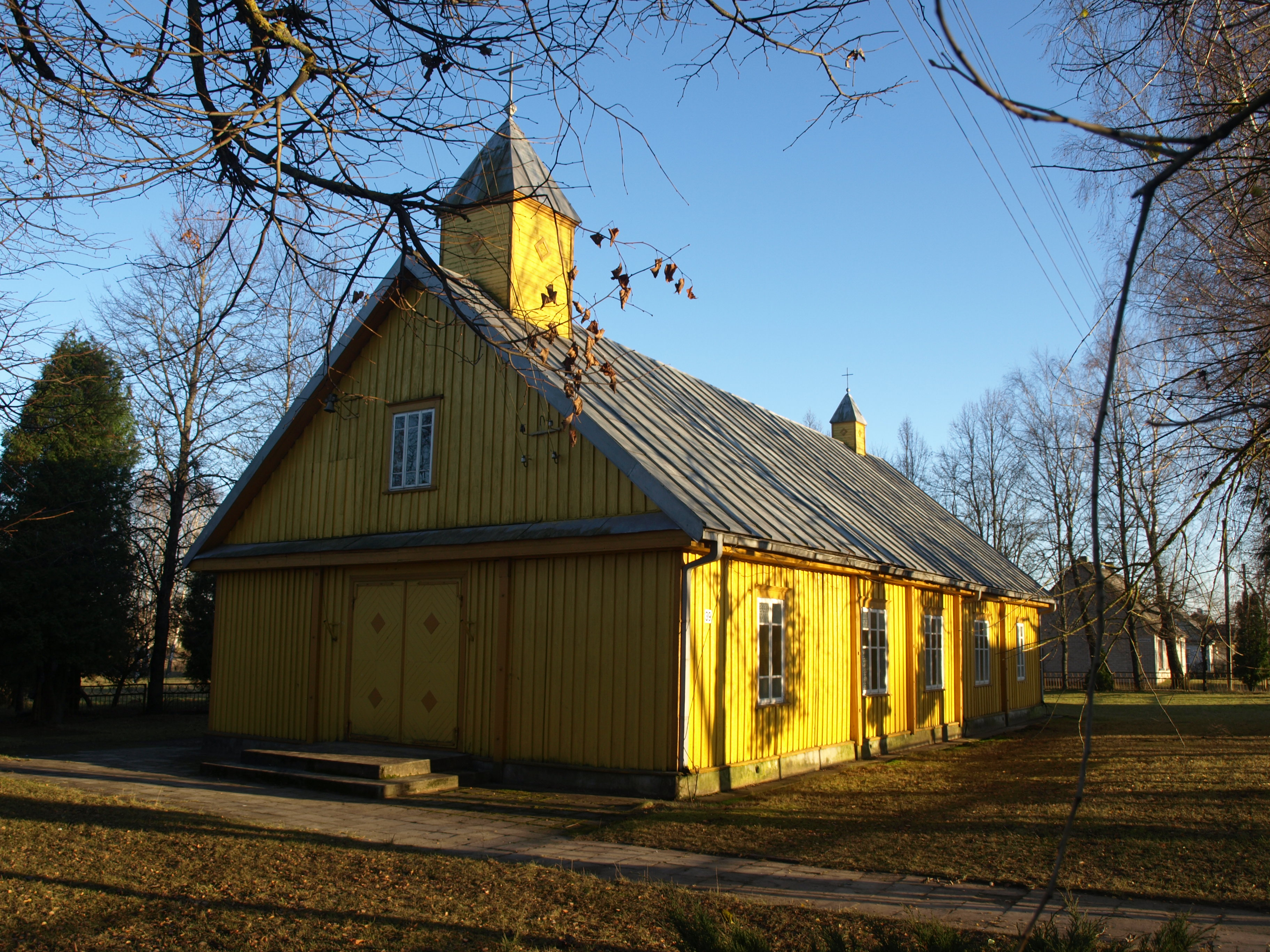 Kiaukliai old church, Širvintos district, Lithuania